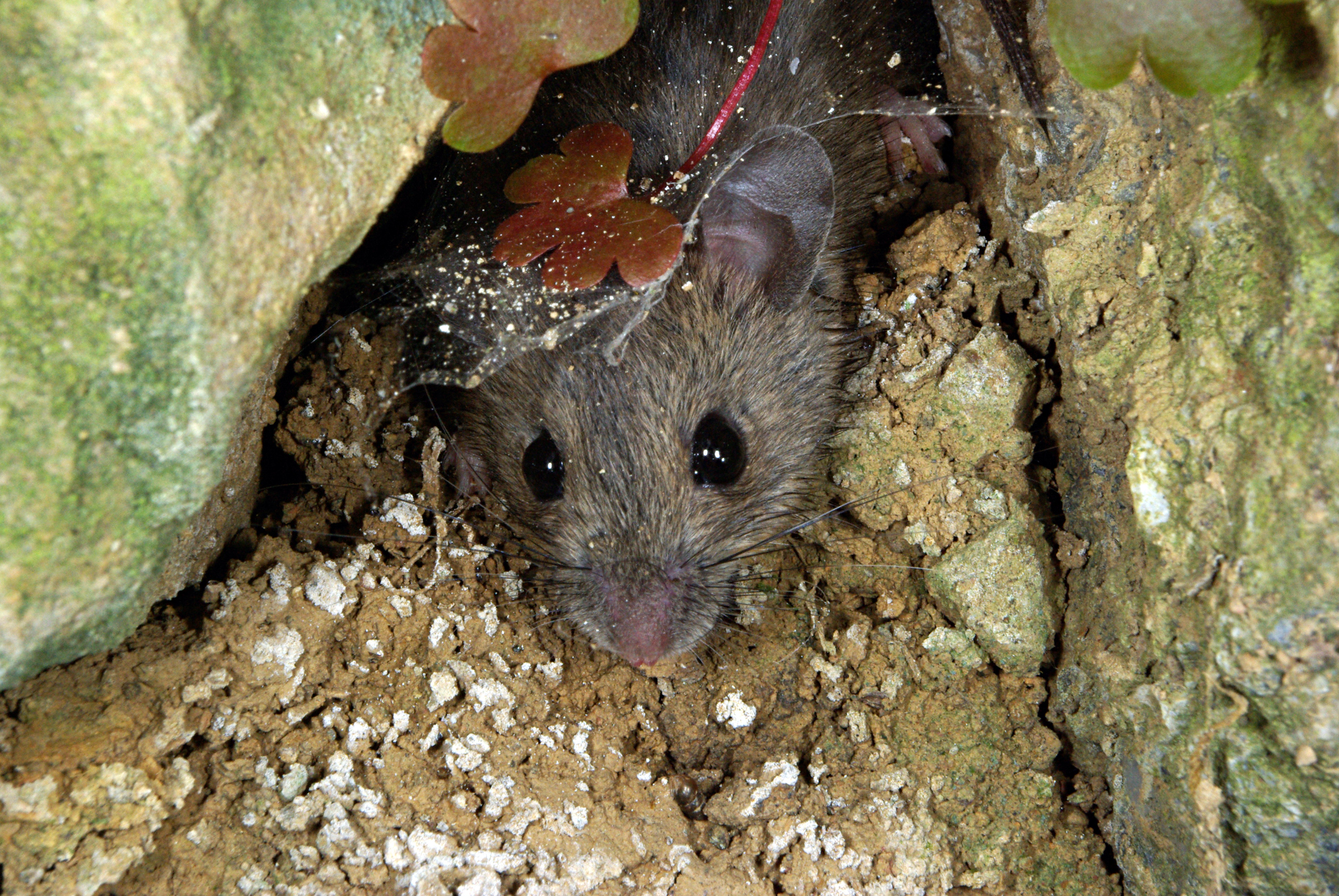 Wood mouse (Apodemus sylvaticus) in Carrocera (León, Spain)